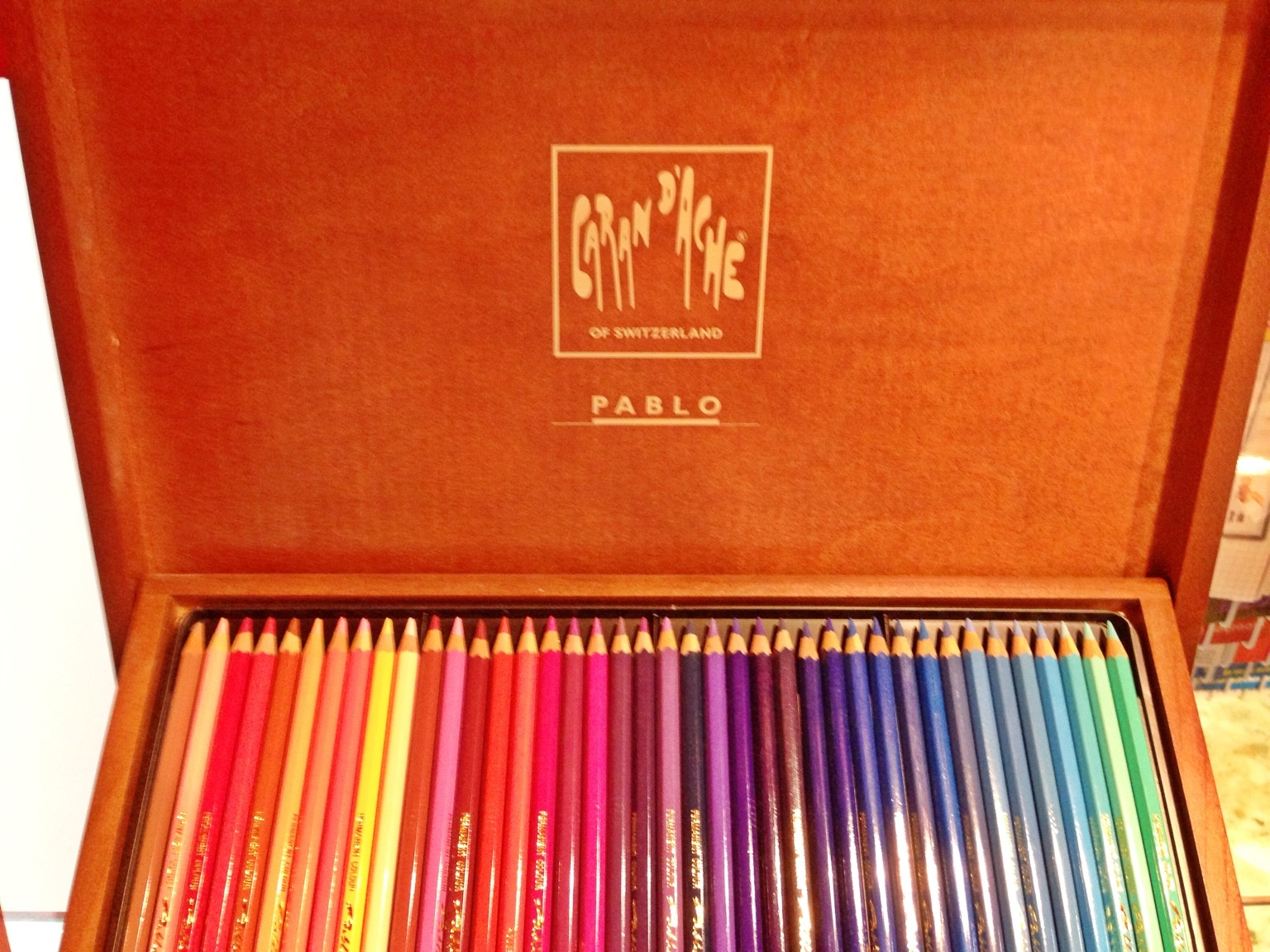 Caran_d'Ache_(company) Pablo Pencils - Feb 2013